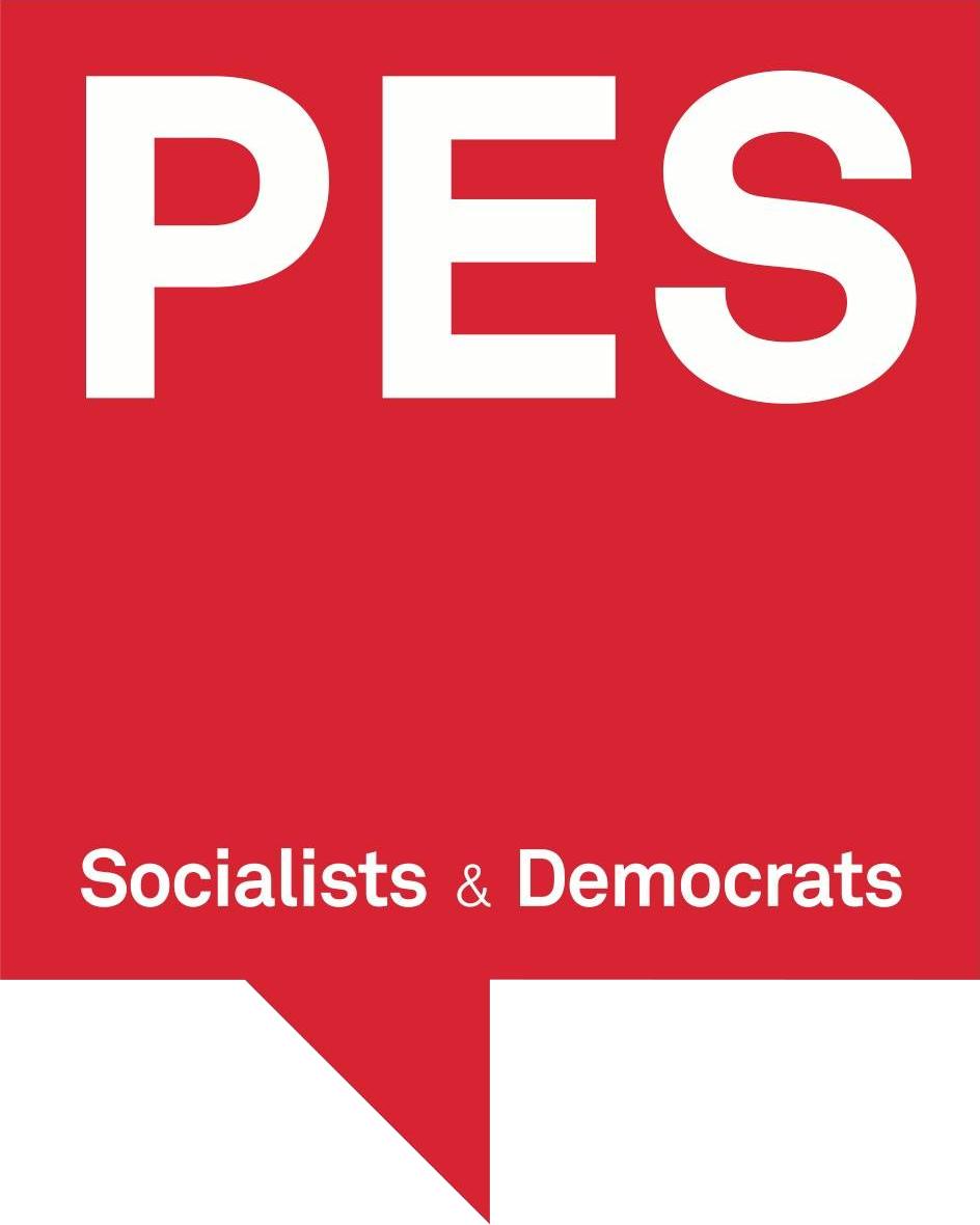 Party of European Socialists